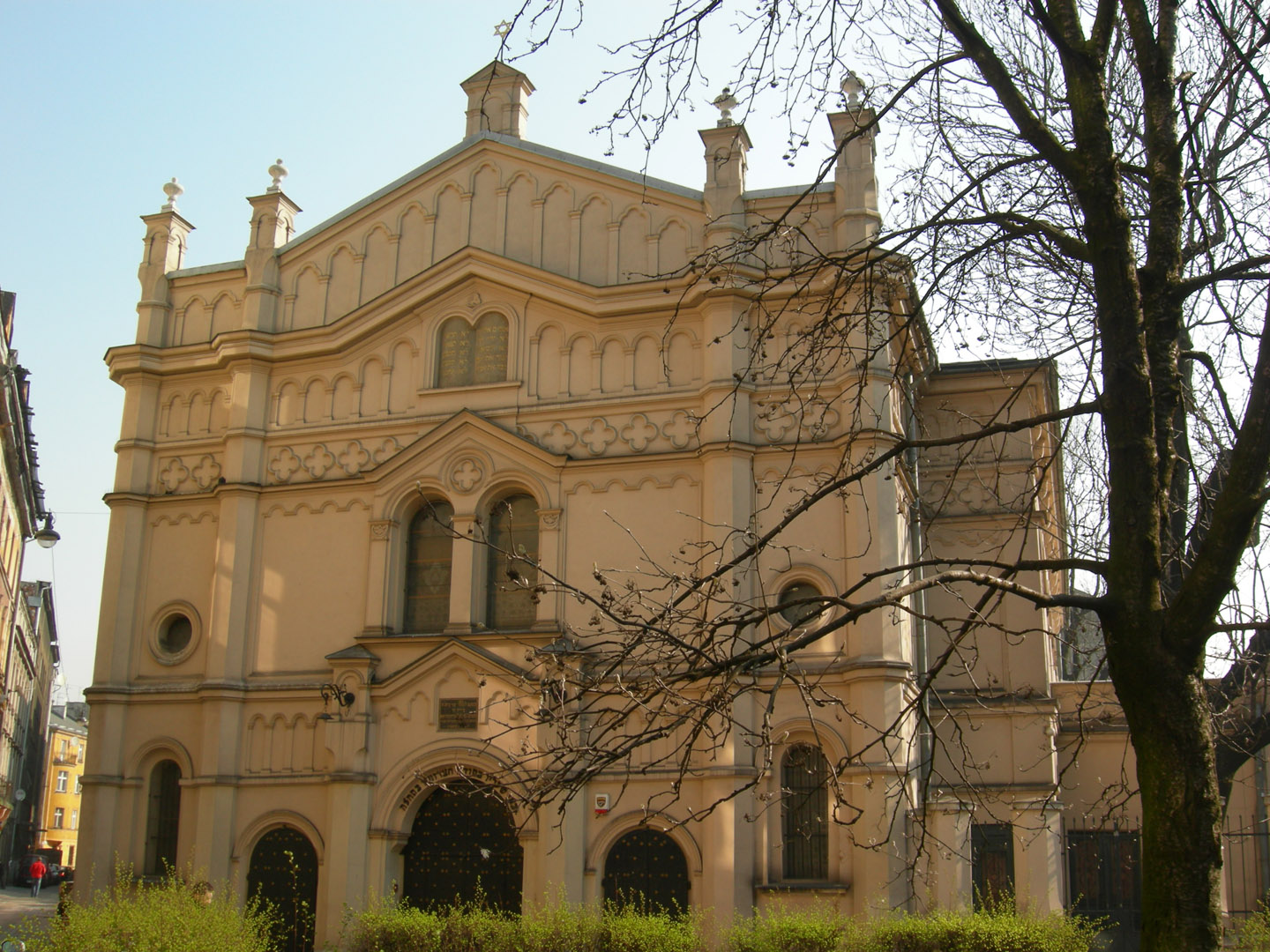 The reform jewish synagogue of Krakow